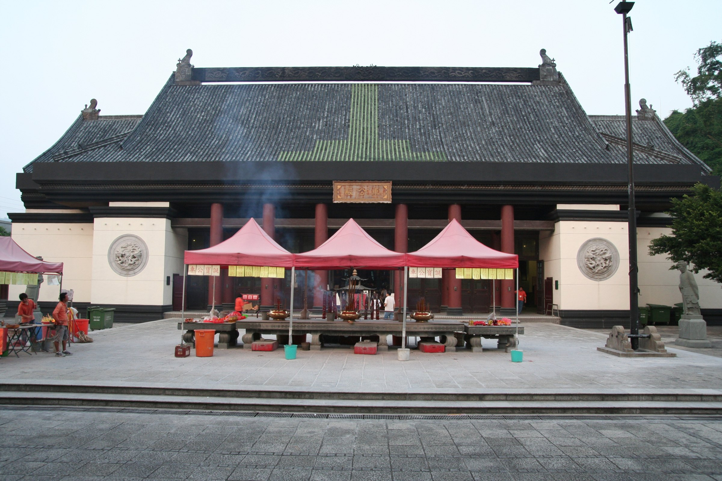 The Che Kung Miu 車公廟 near Tai Wai, Sha Tin District, the New Territories, is most famous one in Hong Kong. Photograph author is me.